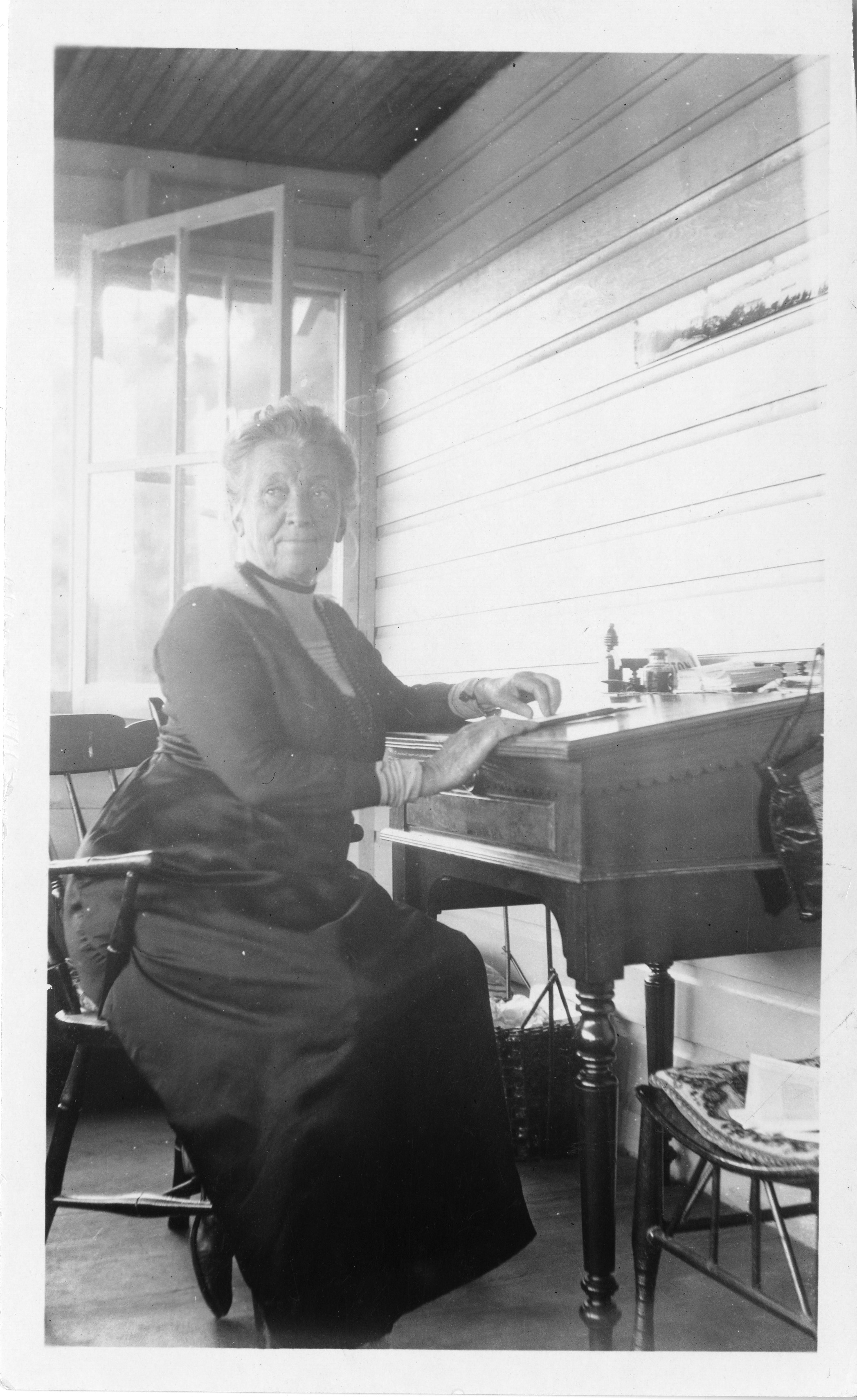 Description: Ichthyologist Cornelia Maria Clapp (1849-1934) earned both the first (Syracuse, 1889) and second (Chicago, 1896) biology doctorates awarded to women in the United States. She spent most of her career as professor of biology at Mount Holyoke College and, every summer, continued her research on fish development at the Marine Biological Laboratory at Woods Hole. Creator/Photographer: Julian Scott Medium: Black and white photographic print Persistent URL: [1] Repository: Smithsonian Institution Archives Collection: Science Service Records, 1902-1965 (Record Unit 7091) - Science Service, now the Society for Science & the Public, was a news organization founded in 1921 to promote the dissemination of scientific and technical information. Although initially intended as a news service, Science Service produced an extensive array of news features, radio programs, motion pictures, phonograph records, and demonstration kits and it also engaged in various educational, translation, and research activities. Accession number: SIA2008-0111